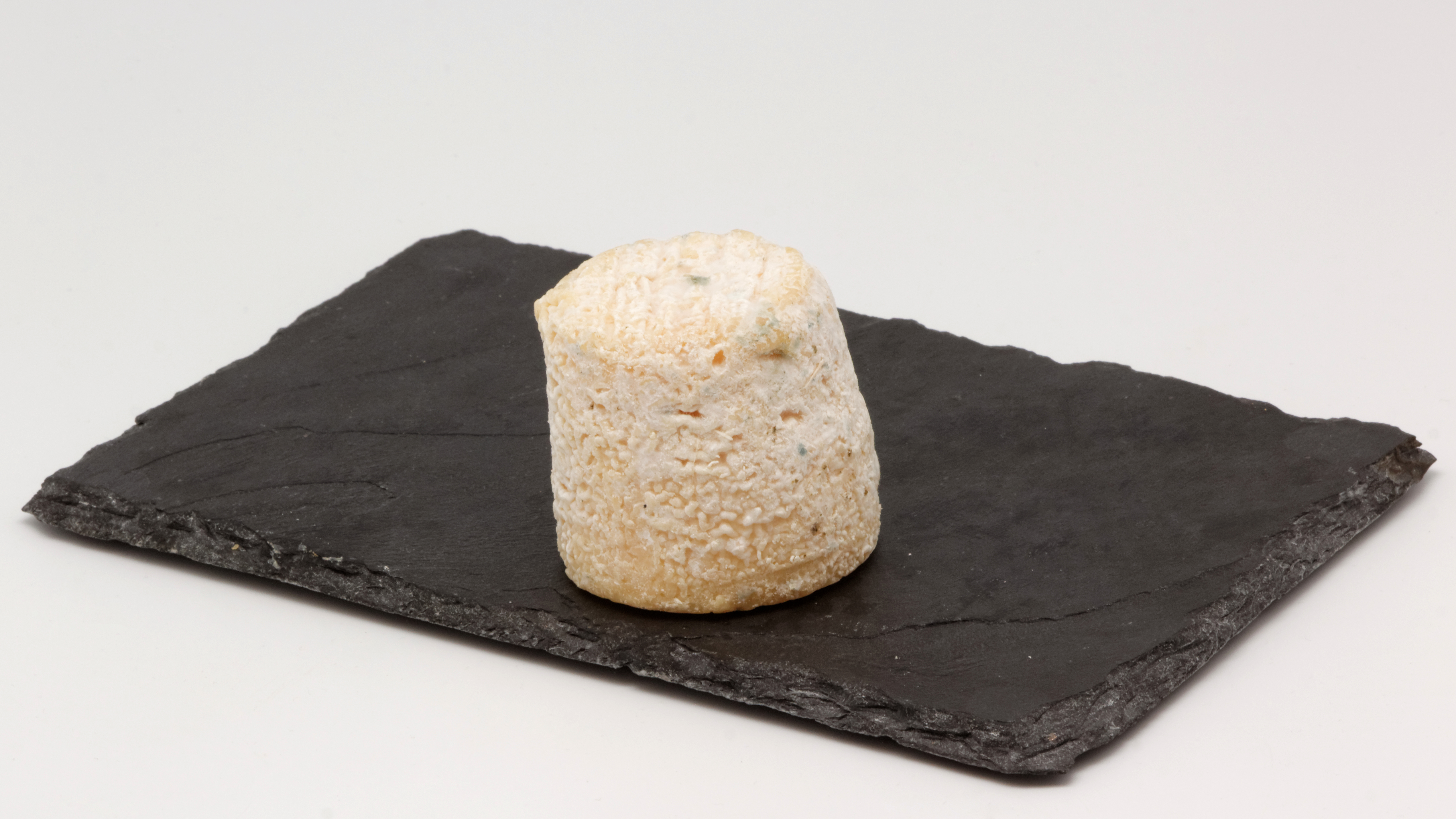 Chabichou du Poitou